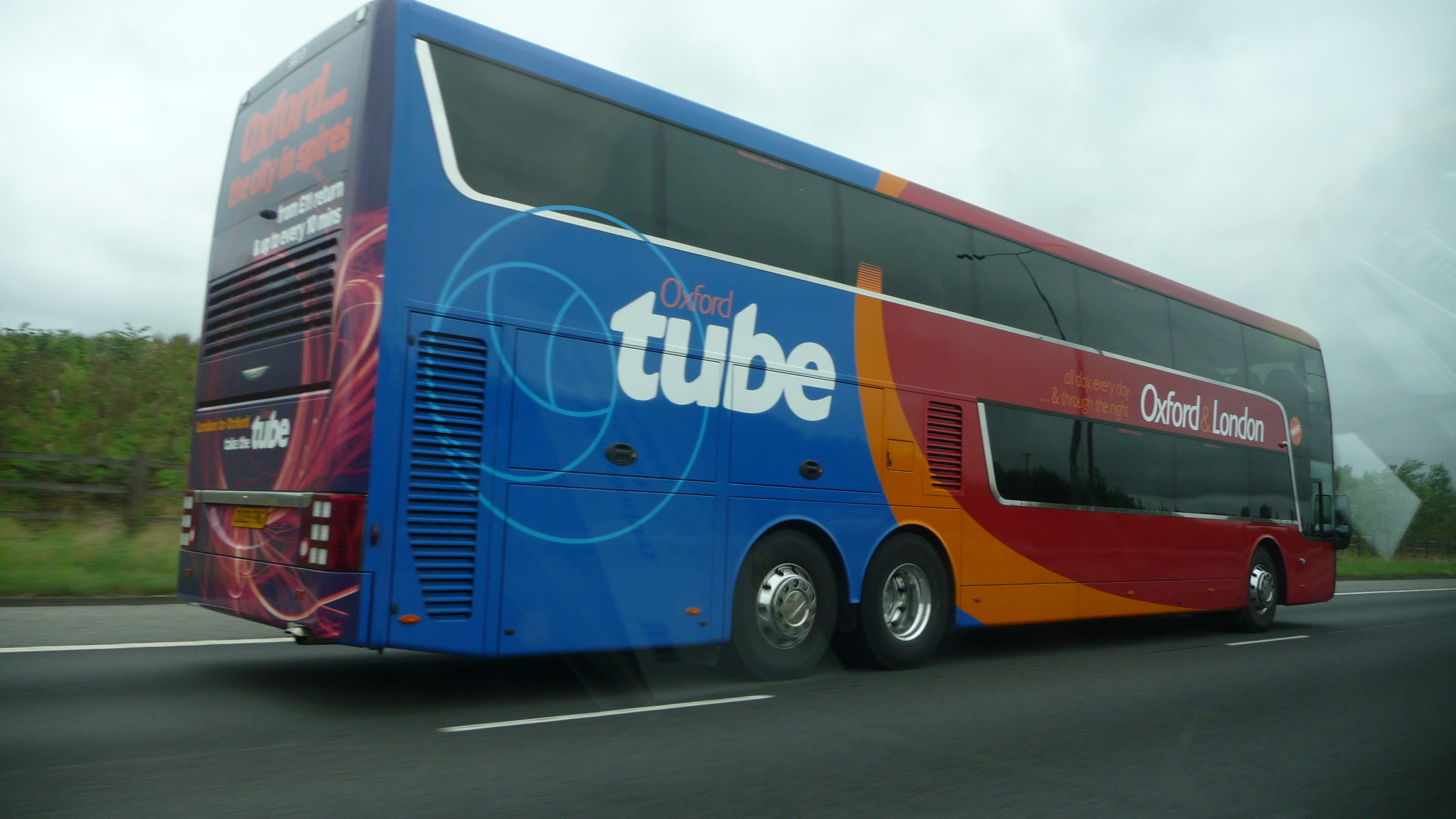 The rear of a Stagecoach in Oxfordshire coach on the Oxford Tube on the M40 motorway en route to Oxford service in 2009. It is a Van Hool T9 Astromega, registration mark OU09 FNG, fleet number 50213. It is one of a batch of 26 of these coaches that entered service on the route that year.